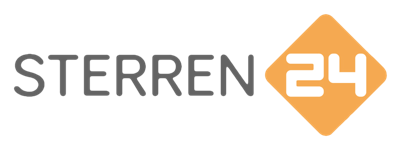 Logo of Sterren 24